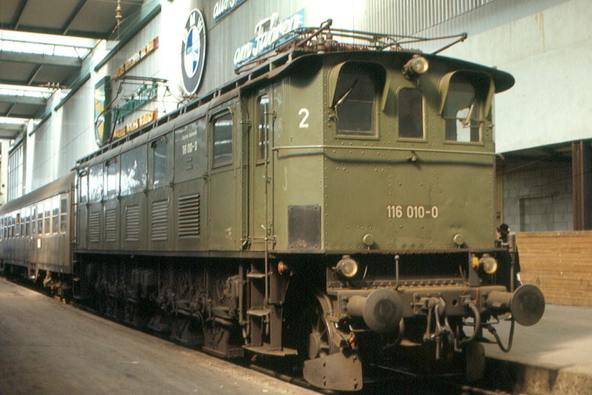 Class E 16 (later 116) was one of the first electric locomotives in Germany. They were built in 1926-1933, 21 in all, for express train service. They had top speed of 120 kph (75 mph). This photo was taken in the Munich station.